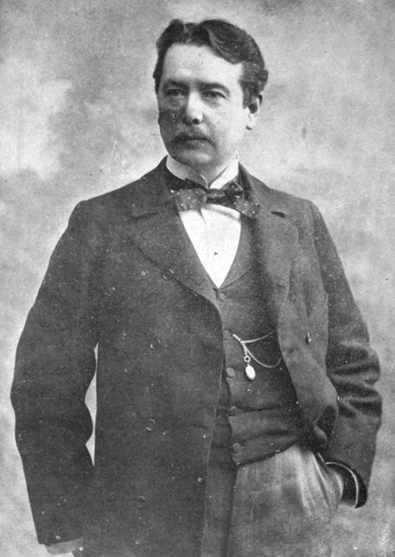 George Whitefield Chadwick